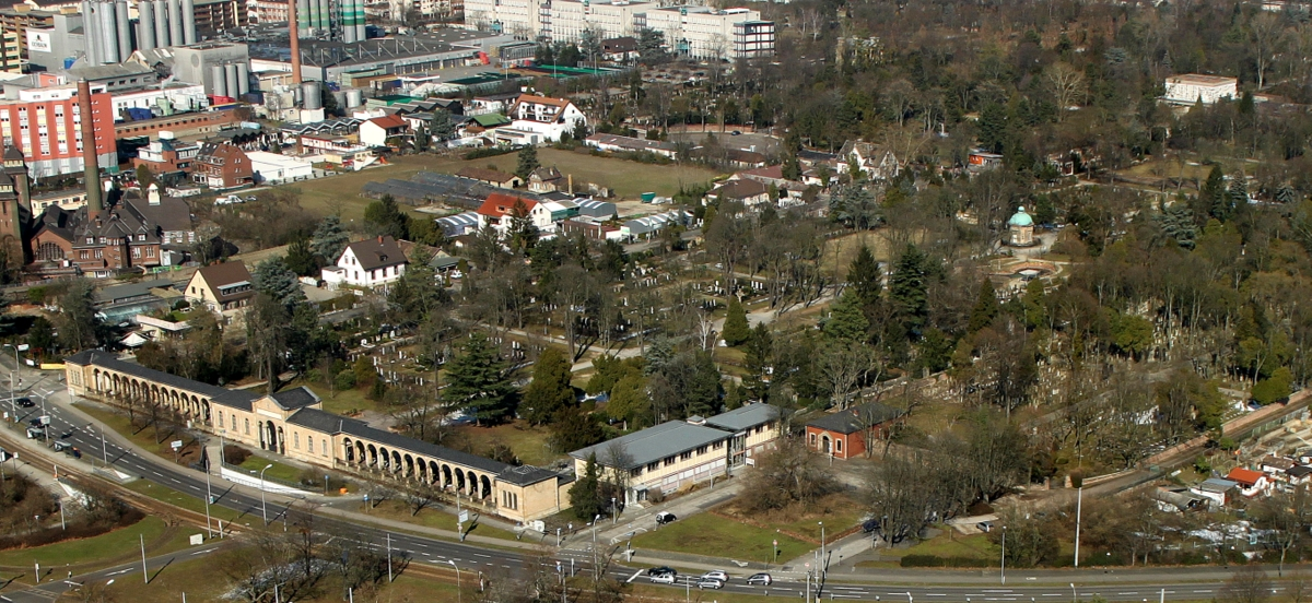 Mannheim Cemetary